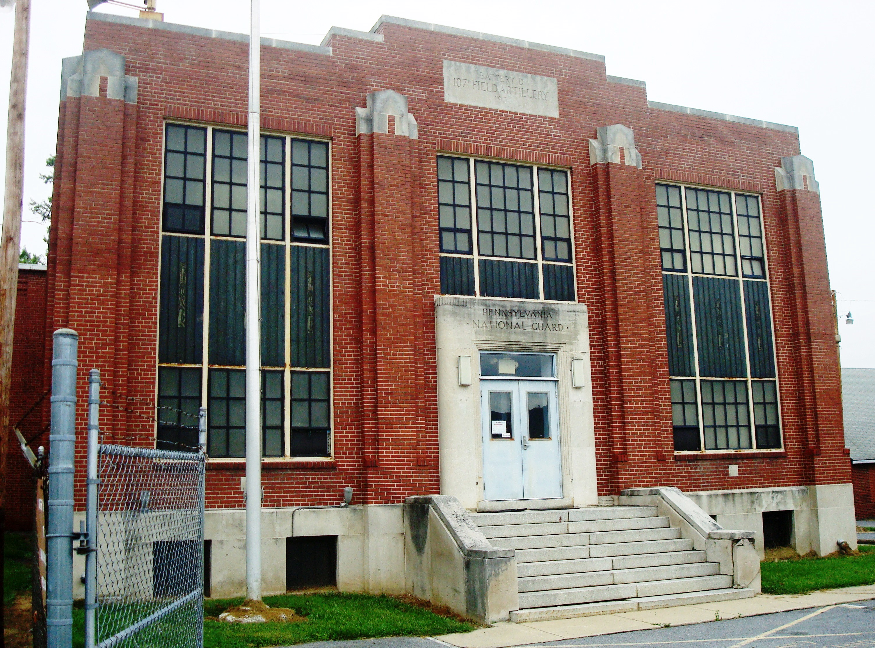 The Williamsport Armory. located at 1300 Penn Street in Williamsport, Pennsylvania, is a Pennsylvania Army National Guard Armory built in 1927. 1930 and 1937 in the Art Deco style. It was designed by Philip H. Johnson, and Davis & Rice.